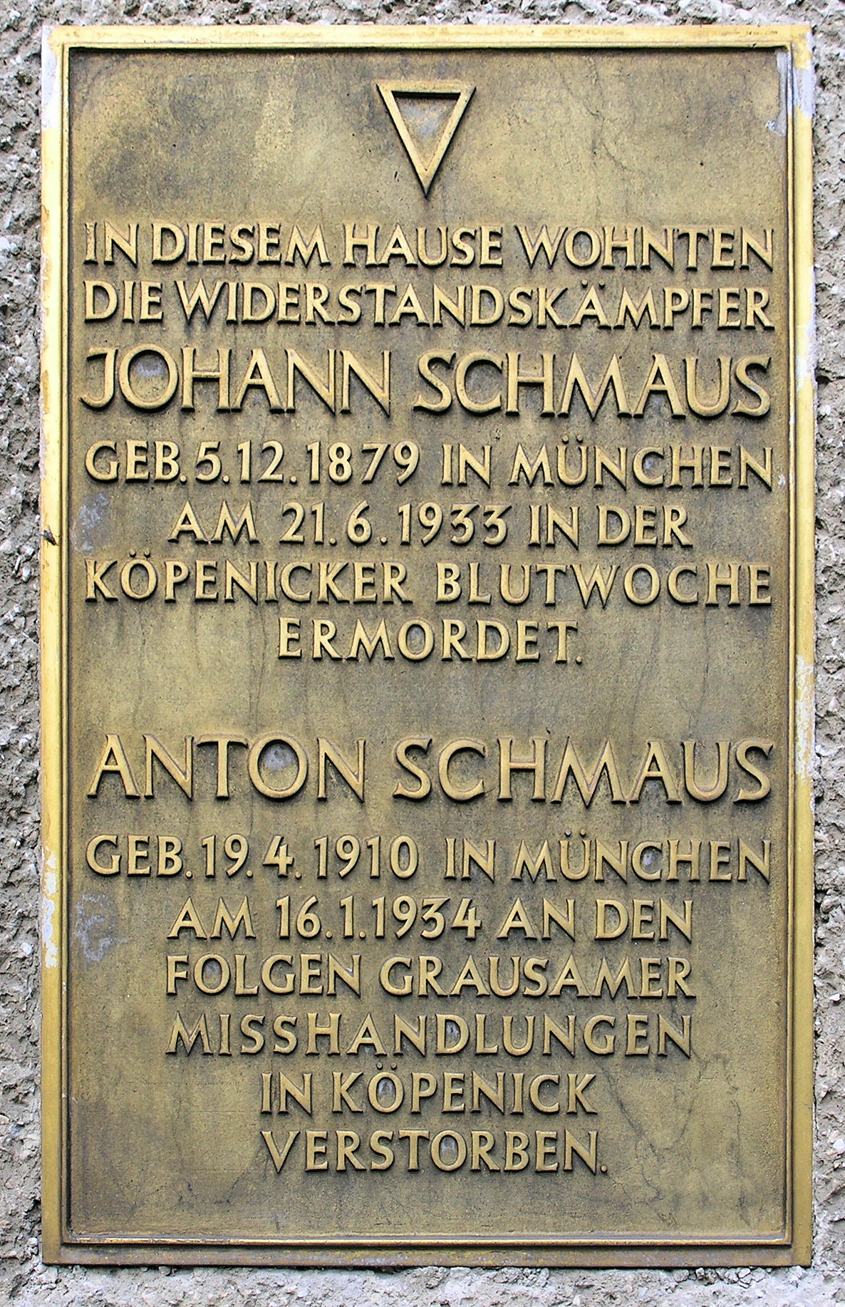 Memorial plaque, Johann Schmaus and Anton Schmaus, Schmausstraße 2, Berlin-Köpenick, Germany Koordinate:52°27′38″N 13°35′28″E / 52.46056°N 13.59111°E